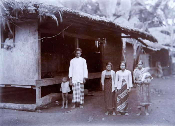 Group portrait with the village head of Pari